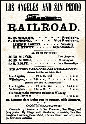 Los Angeles & San Pedro Railroad advertisement (1870) (The Cooper Collection of Early American Railroadiana)